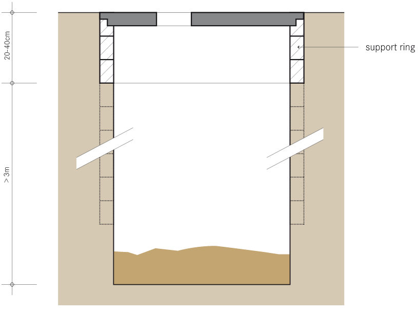 Schematic of a single pit of a pit latrine